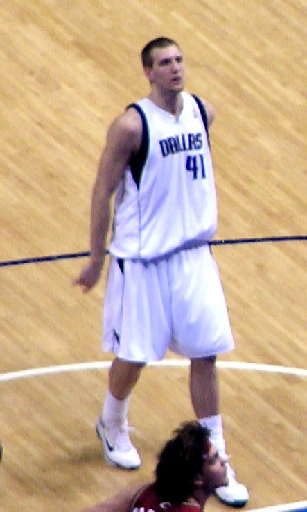 Dirk Nowitzki at the free-throw line